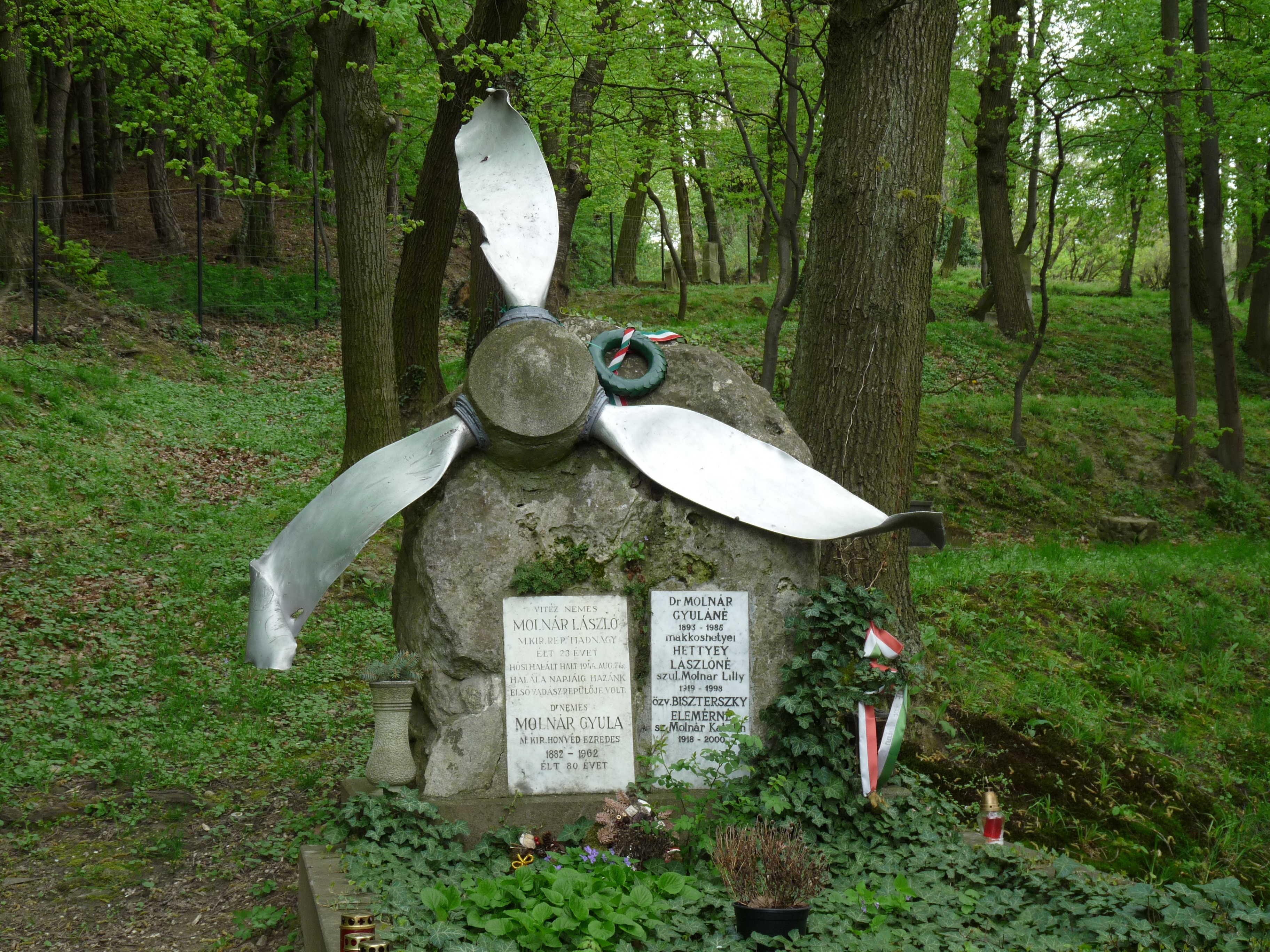 Grave of Second lieutenant László Molnár (1921–1944) Hungarian fighter pilot in the Heroes' Cemetery in Sopronbánfalva (Hungary). His tombstone is decorated with the twisted propeller of his downed fighter plane.